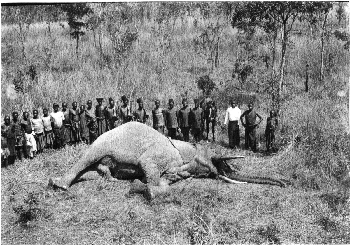 Elephant hunt in Northern Rhodesia, today Zambia, with 22 men and boys standing behind a shot elephant.